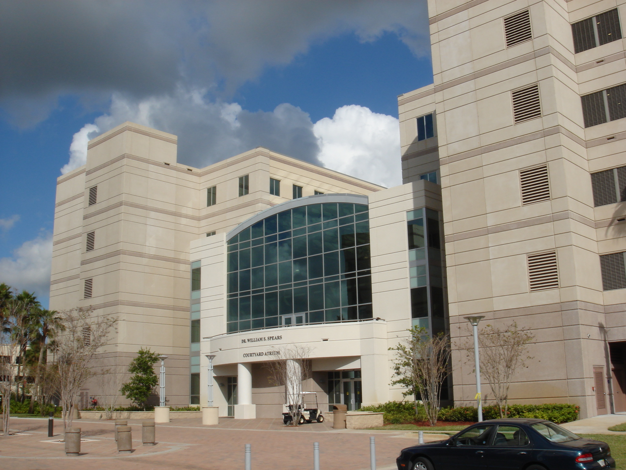 H. Wayne Huizenga School of Business and Entrepreneurship, Fort Lauderdale-Davie, Florida